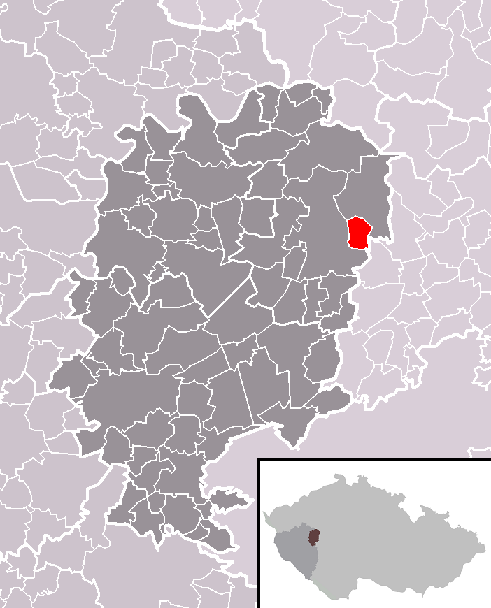 Location of Týček municipality within Rokycany District and within identical administrative area of Rokycany as a Municipality with Extended Competence.